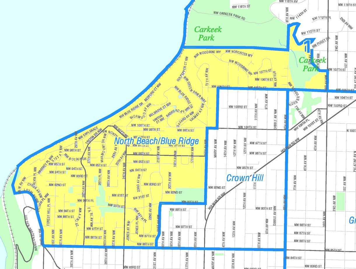 Map of Seattle's North Beach / Blue Ridge neighborhood. Like the other maps from the Seattle City Clerk's Neighborhood Map Atlas, this is not an official map; in particular, borders are not official. Disclaimer: The Seattle Neighborhood Atlas, which the Seattle Clerk's Office has placed in the public domain (as confirmed by OTRS ticket 2008033110016048) contains some general commentary on the maps, "About Maps", which should typically be linked as an accompaniment to these maps to (in their words) "minimize the numerous 'complaints' or comments by users who feel it necessary to point out how the Clerk's Office is 'wrong' about a certain section of town." In particular, "About Maps" says that the atlas "is designed for subject indexing of legislation, photographs, and other documents in the City Clerk's Office and Seattle Municipal Archives" and "is not designed or intended as an 'official' City of Seattle neighborhood map. There are many different ideas of what neighborhood districts exist in Seattle and what their names are…"